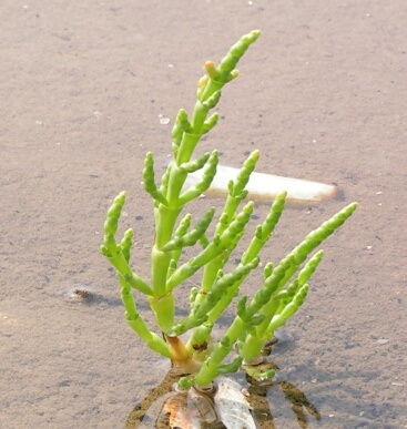 Salicornia europaea on the tidal flats in waddensea national park in germany